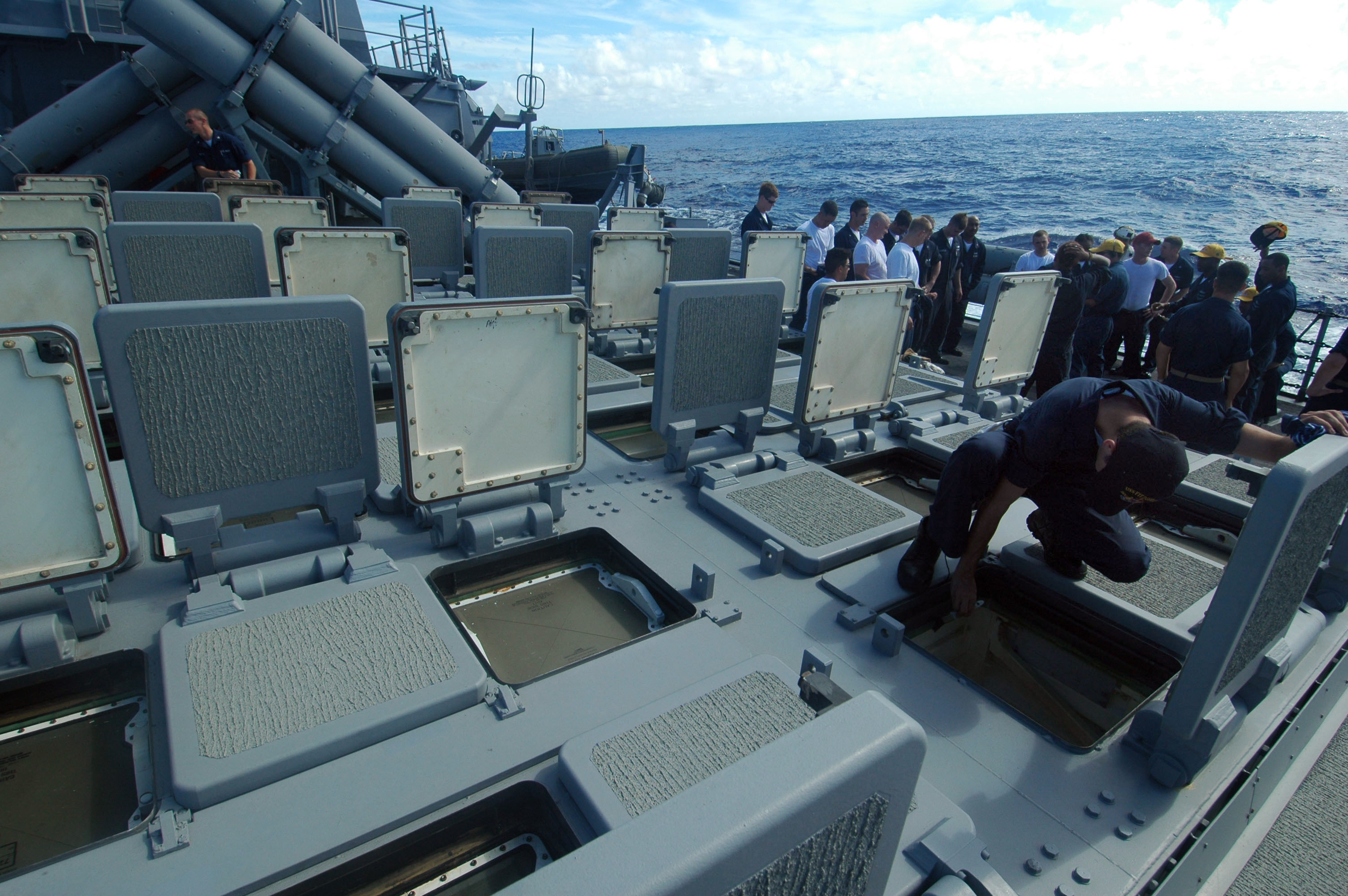 Yokosuka, Japan (Sept. 2, 2005) – A Sailor aboard the guided missile destroyer USS Fitzgerald (DDG 62) inspect the MK 41 Vertical Launching System (VLS) for water to prevent electrical failure. The MK 41 Vertical Launching System (VLS) is a canister launching system, which provides a rapid-fire launch capability against hostile threats. Fitzgerald is assigned to the Kitty Hawk Carrier Strike Group, currently forward deployed in Yokosuka, Japan. U.S. Navy photo by Photographer's Mate Airman Adam York (RELEASED)